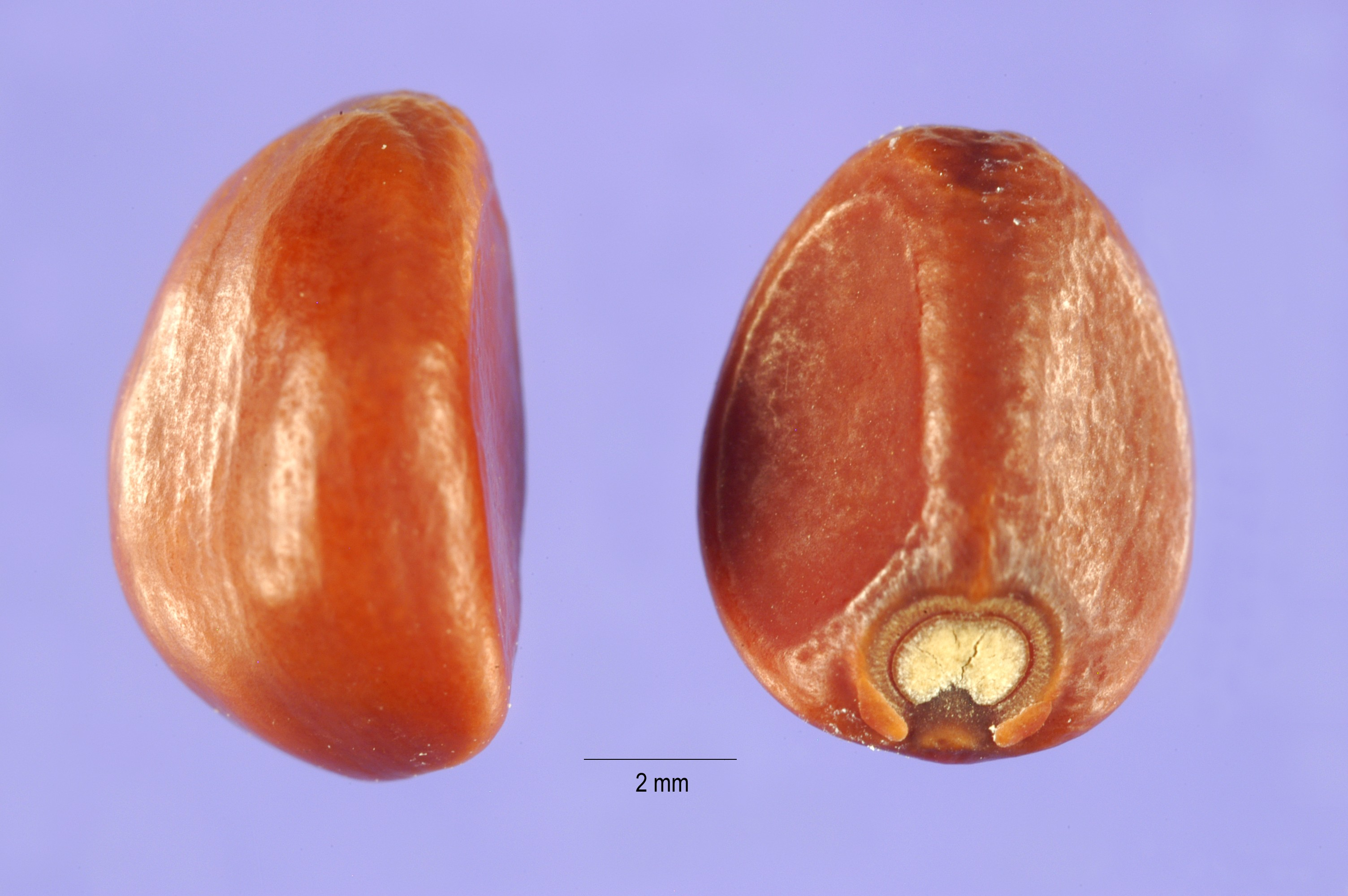 Ipomoea turbinata syn. Ipomoea muricata seeds. Provided by ARS Systematic Botany and Mycology Laboratory. India, Mahendra